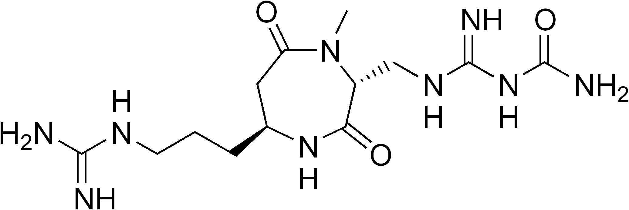 chemical structure of TAN-1057 C